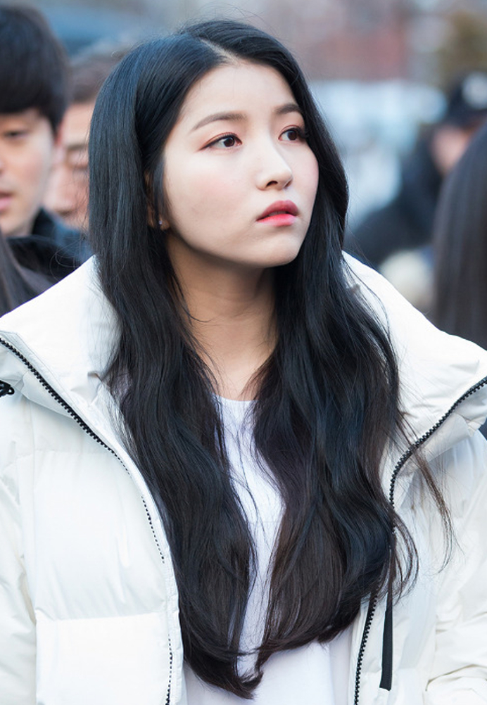 Kim So-won going to work on January 15, 2018.